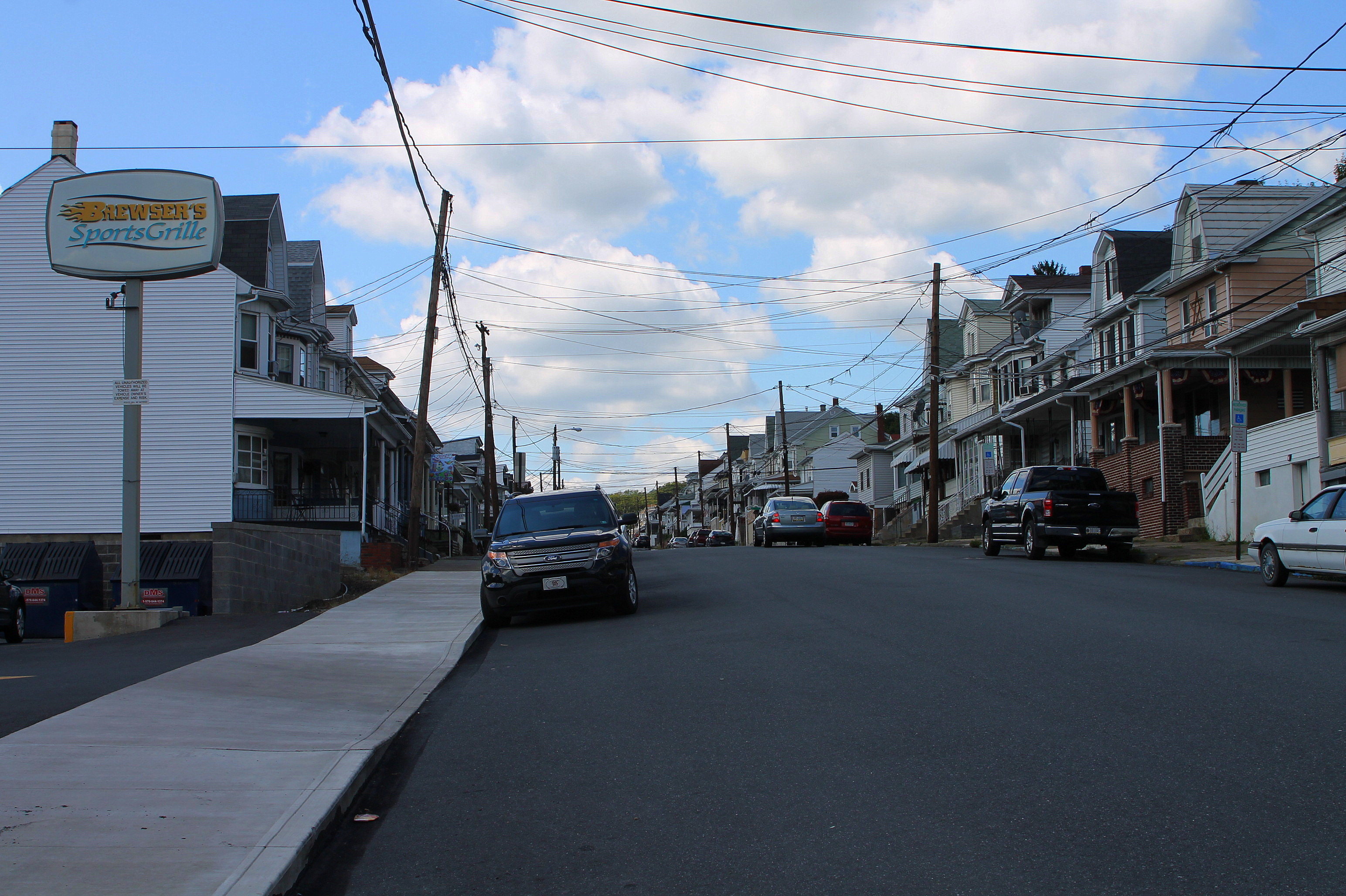 Streetscape in Edgewood, Pennsylvania